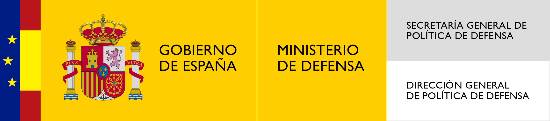 Logo of the Directorate-General for Defense Policy of the Ministry of Defence of Spain.